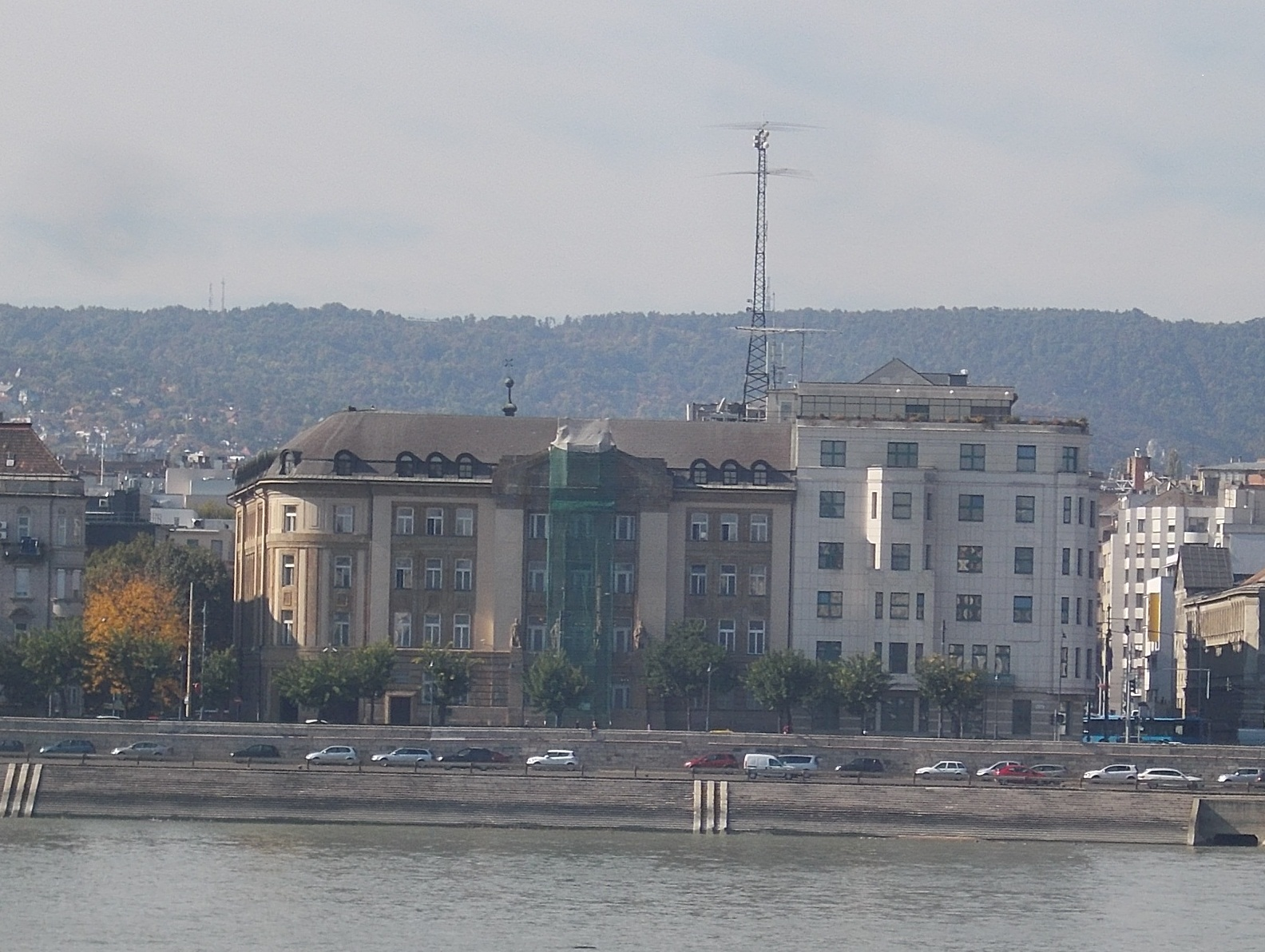 Foreign Office 'A' + 'B'&'C' buildings and Bem and Angelo Rotta quays from Széchenyi quay, Lipótváros neighbourhood, Budapest District VBudapest.